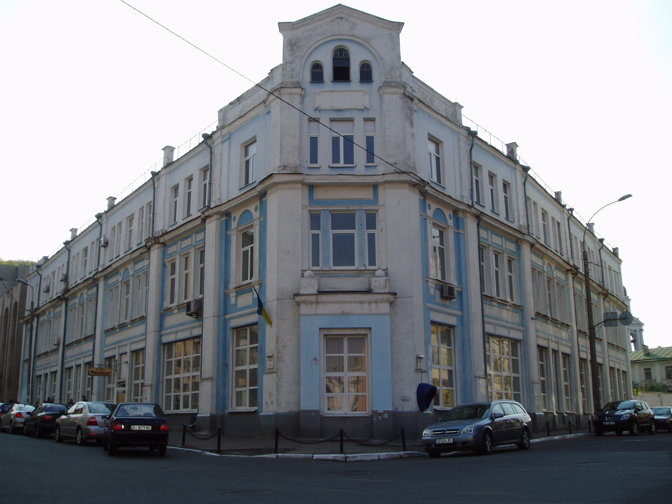 A photo of a Tailor's guild building in Kyiv, which dates back to the 18 cen.